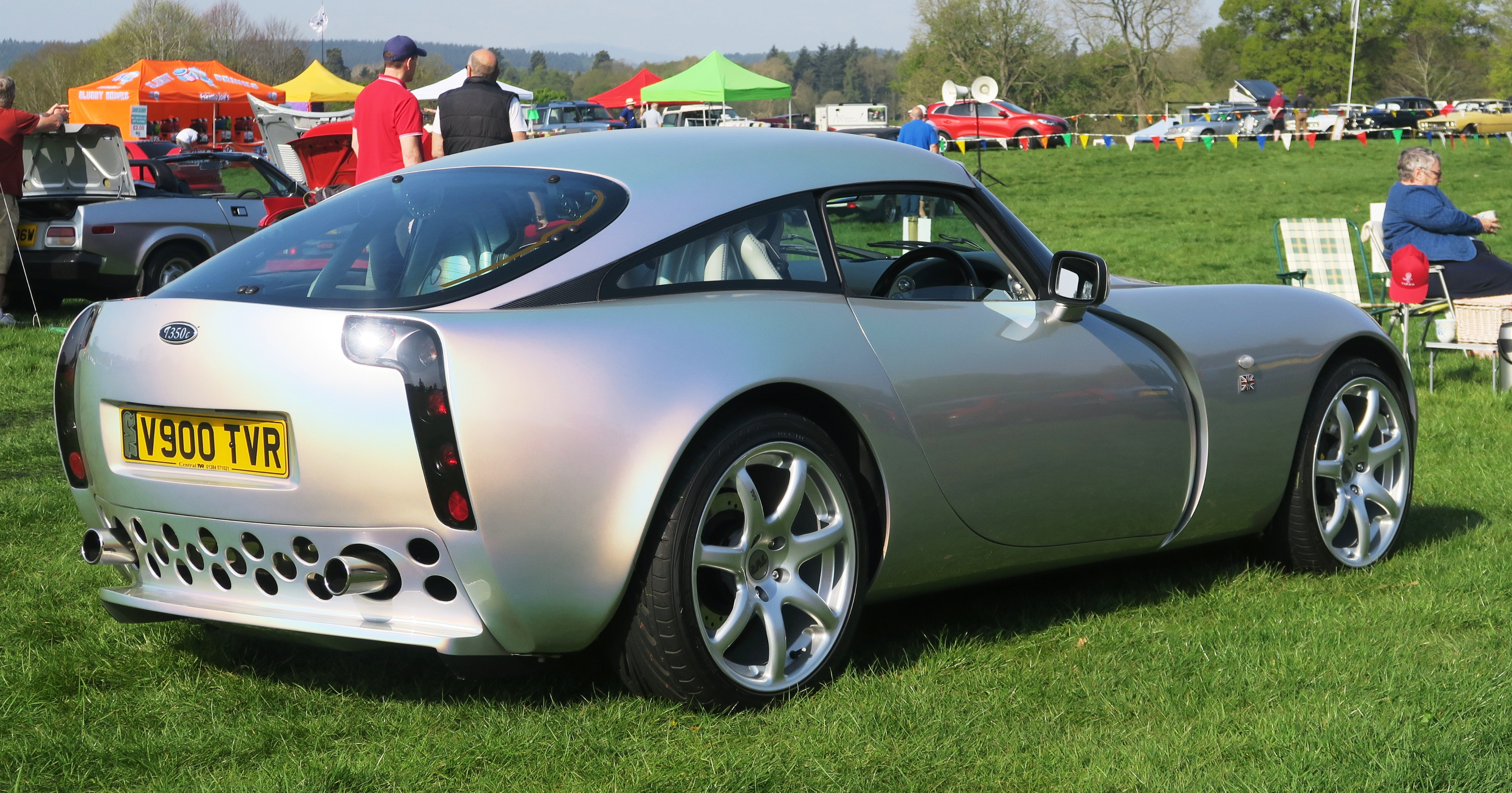 TVR (2004)